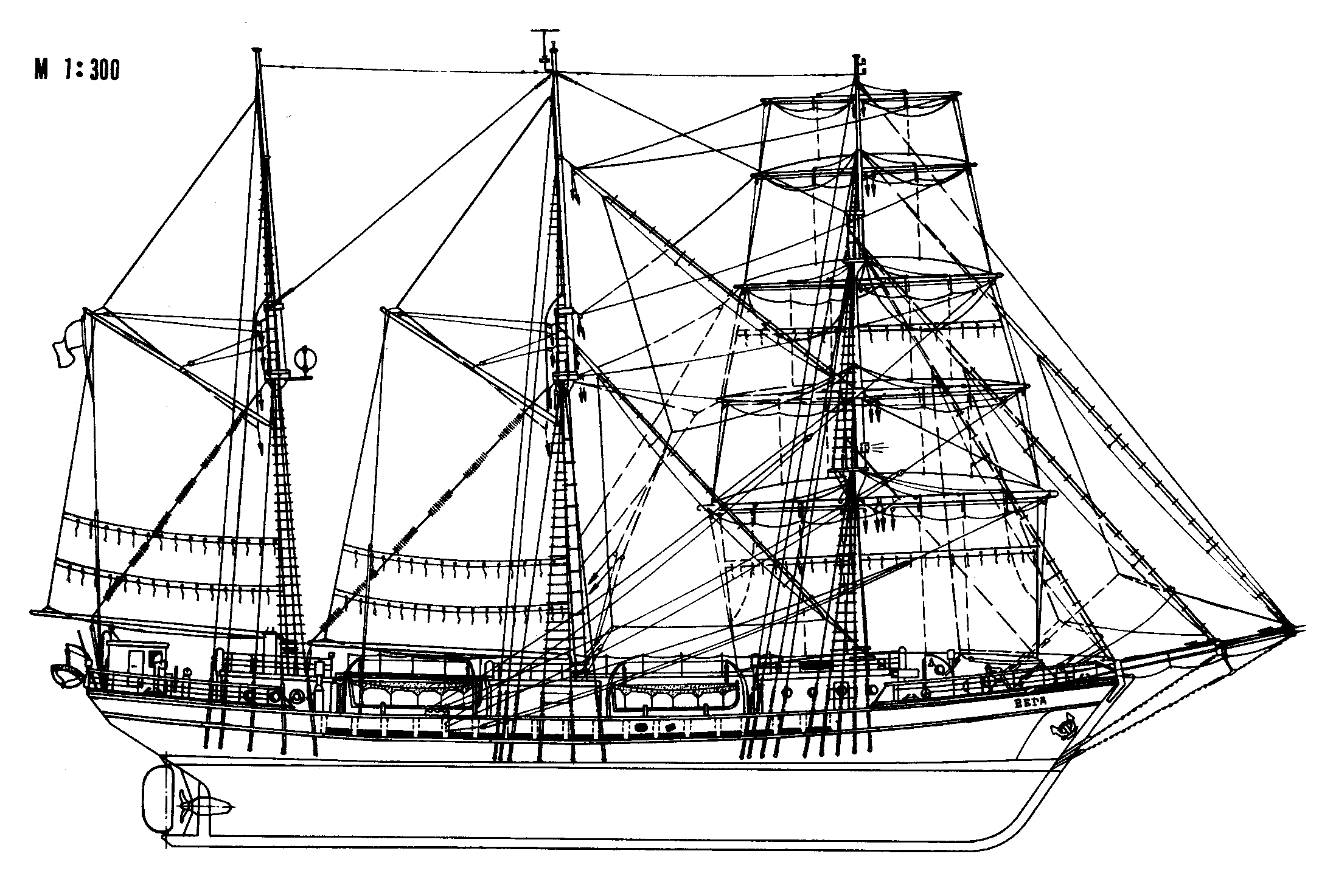 Blueprint of Schooner Vega (original name Venta). Built in 1952.